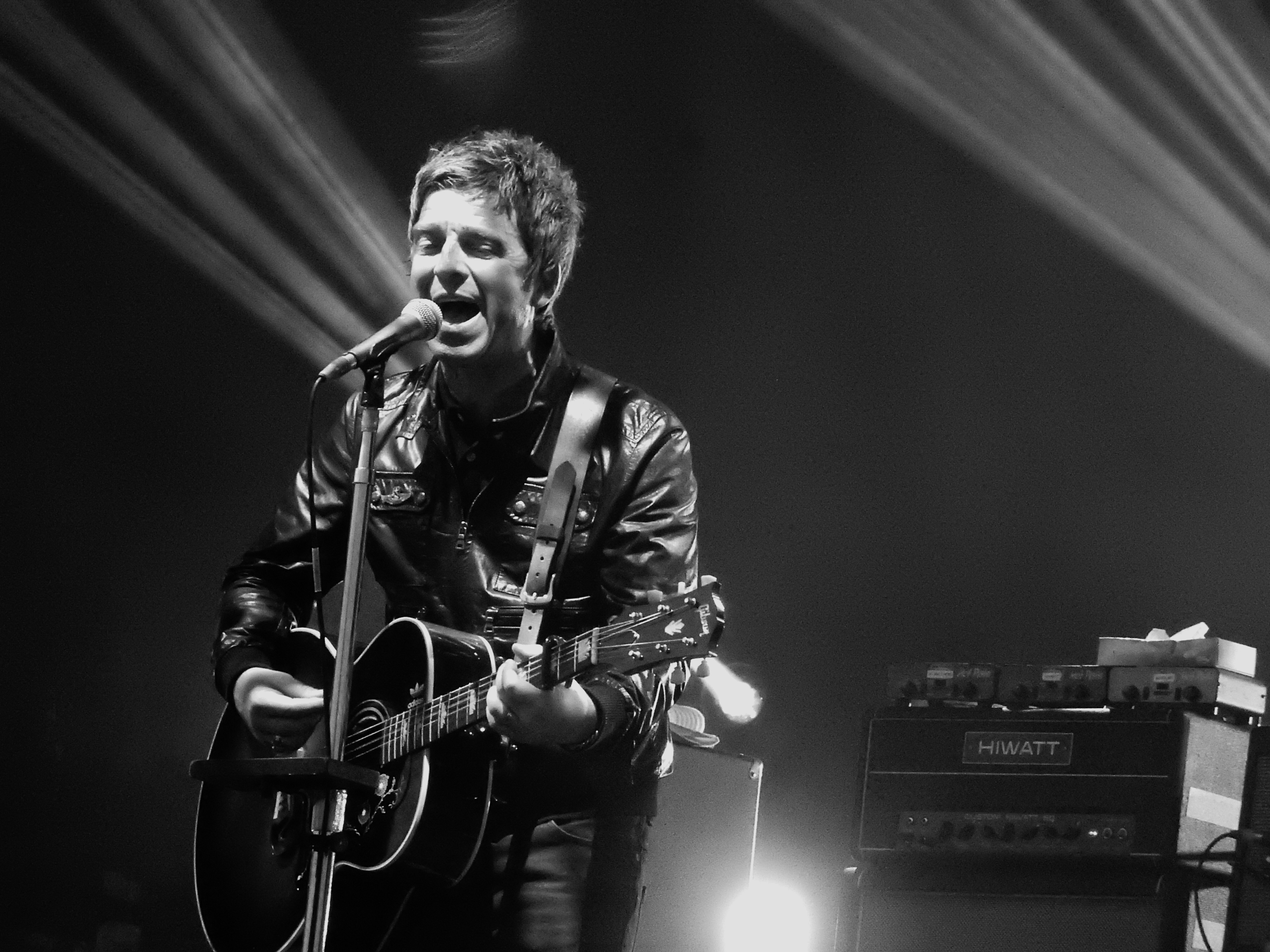 Noel Gallagher's High Flying Birds, Clapham Common, Calling Festival, London